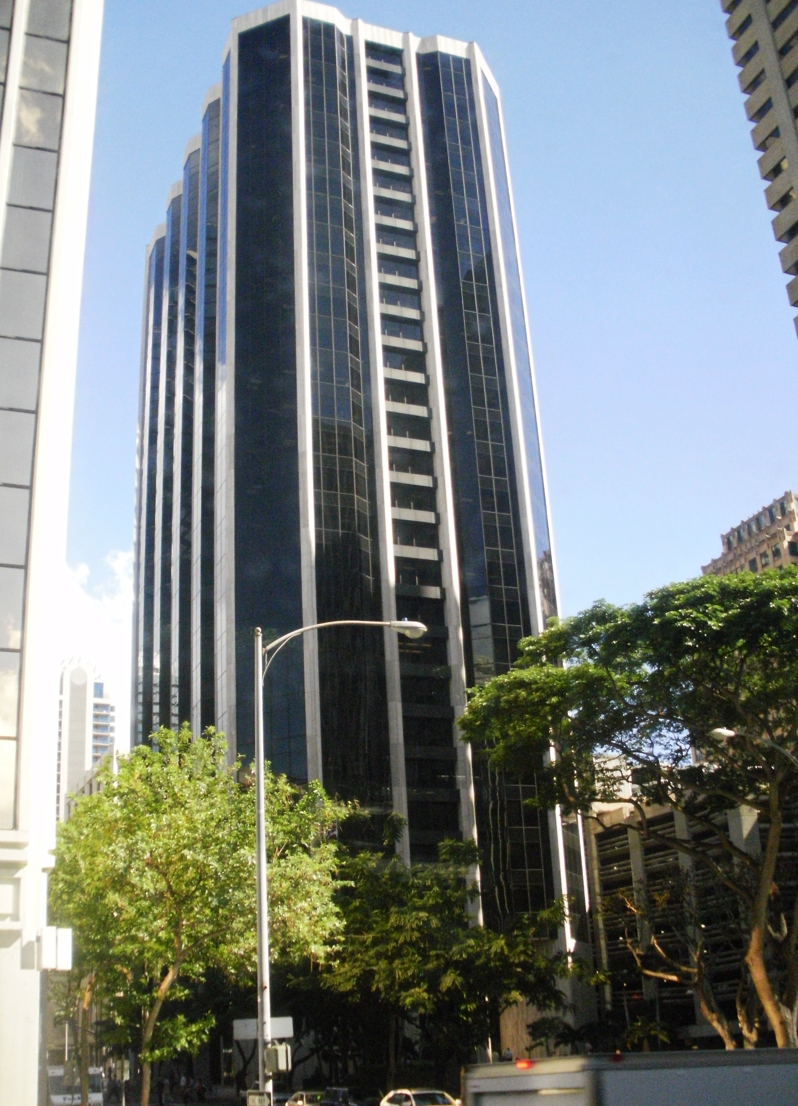 Downtown, Honolulu, HI, USA